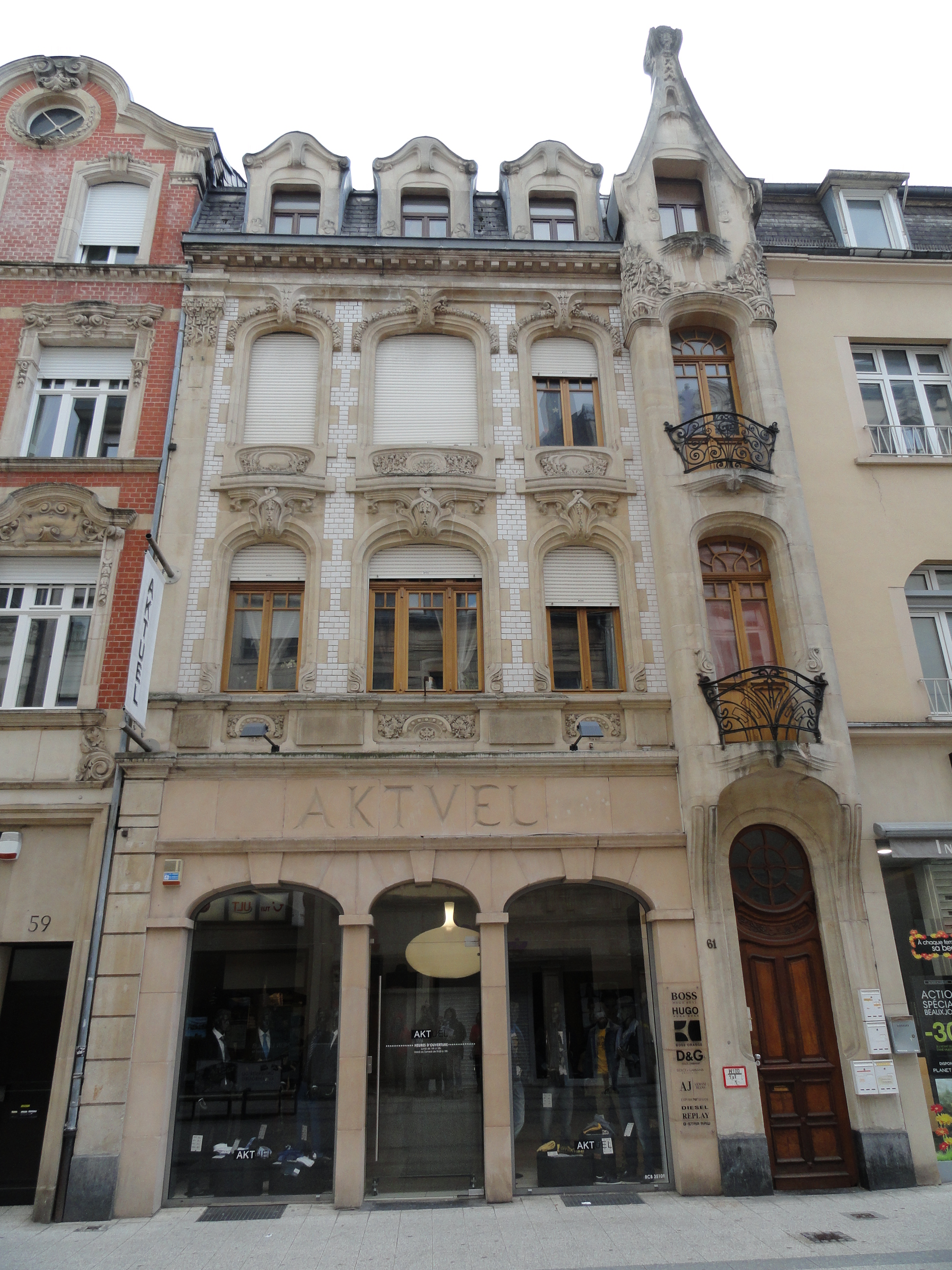 61 rue de l'Alzette- Esch-sur-Alzette-Grand duché du Luxembourg - Art Nouveau